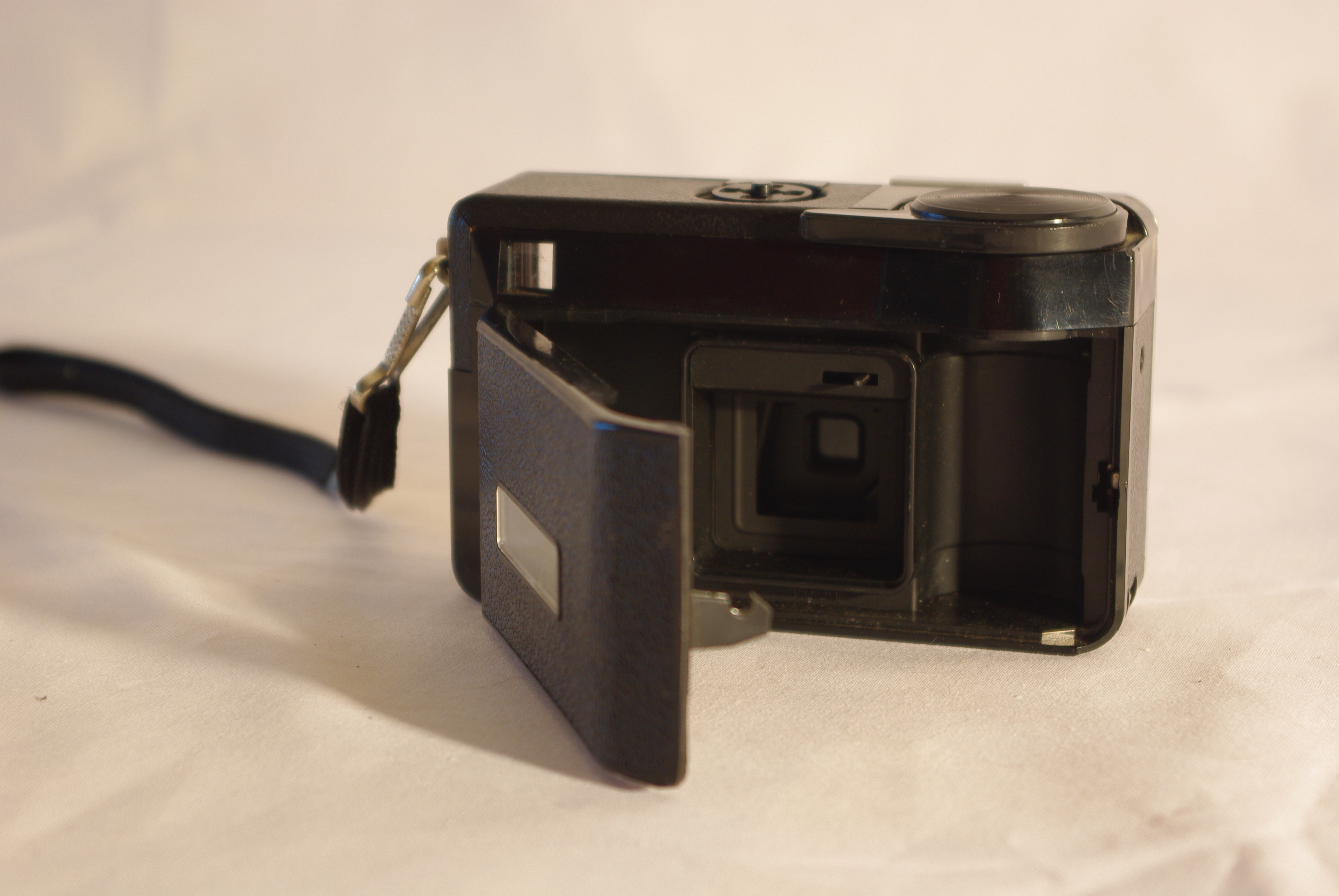 Instamatic 133 with opened back